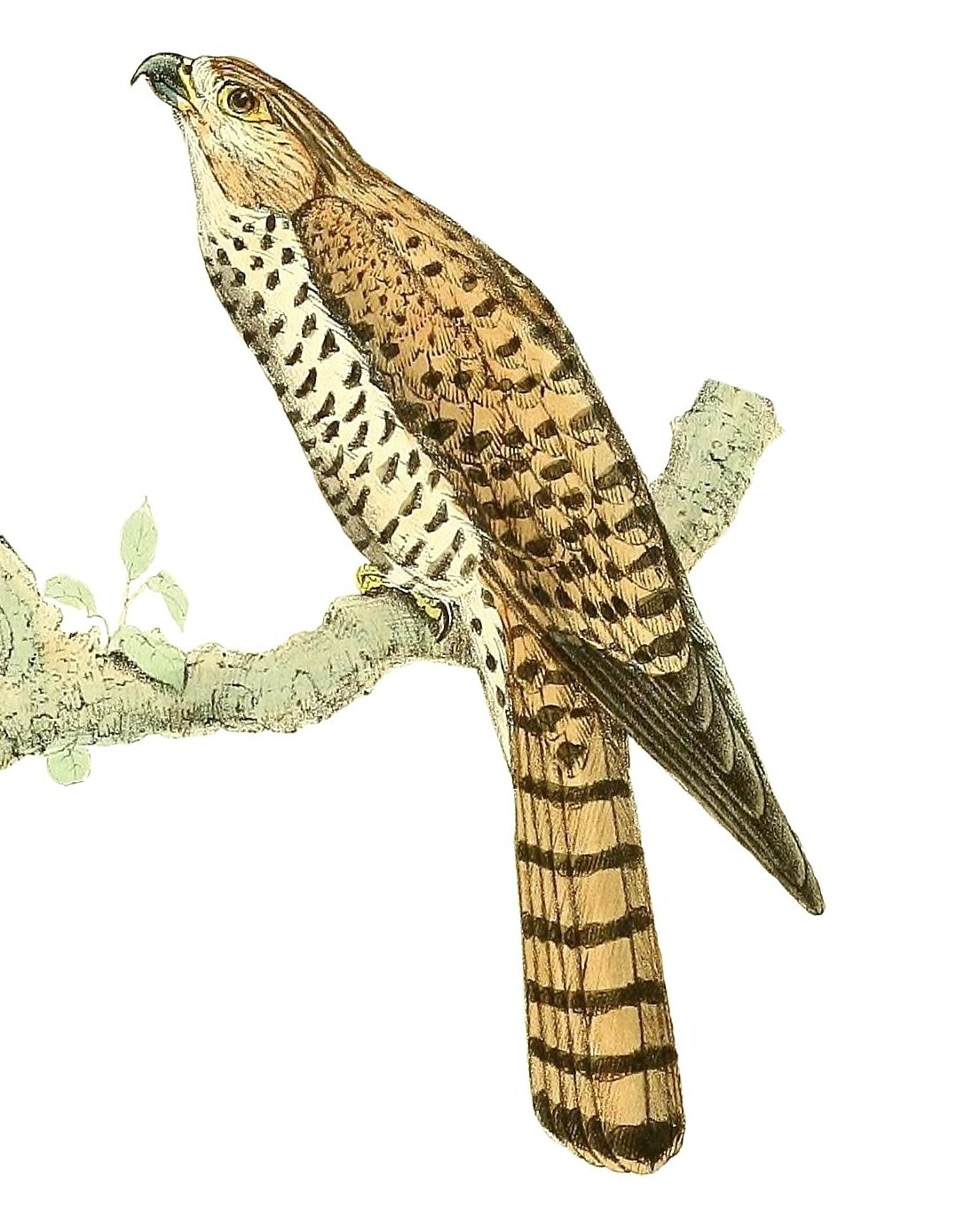 Falco punctatus (Mauritius Kestrel), adult male